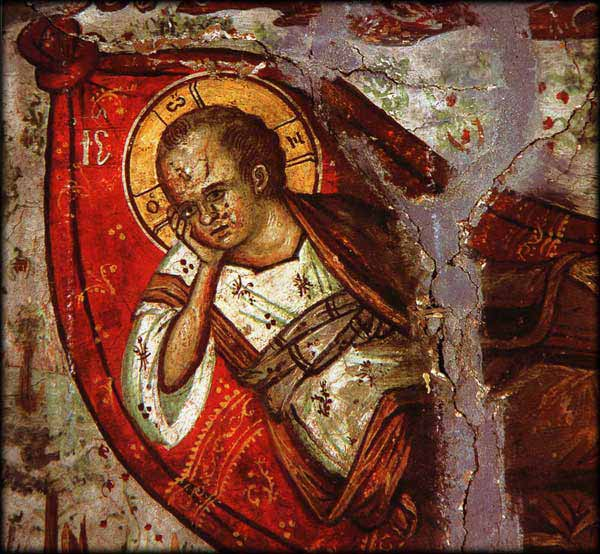 Дионисий из Фурны (Дионисий Фурноаграфиот). Спящий Христос. Фреска из келии Иоанна Предтечи монастыря Кутлумуш на Афоне